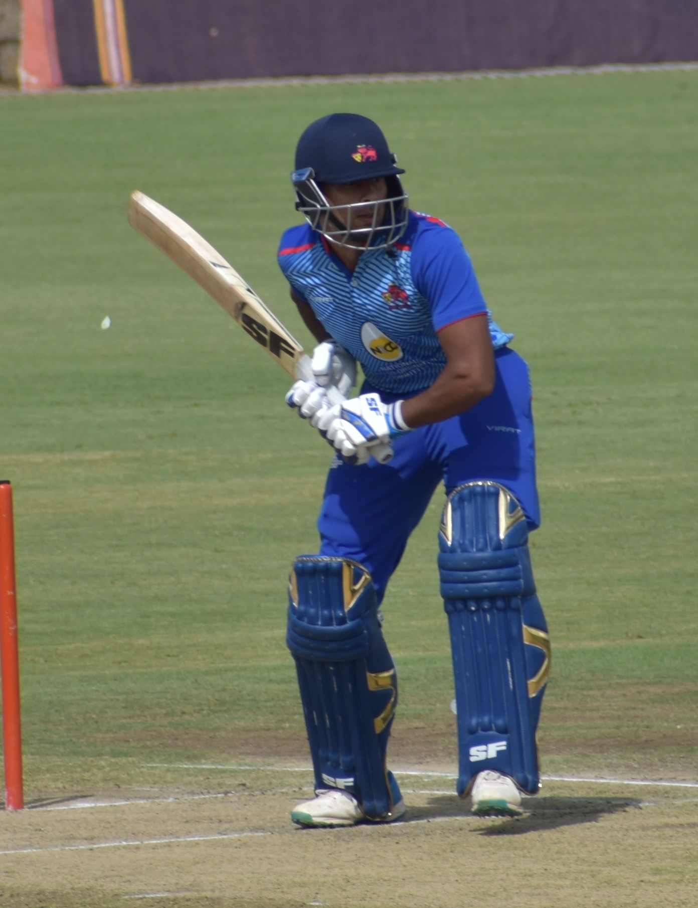 Indian cricketer Aditya Tare during the 2019-20 Vijay Hazare Trophy in Alur, Bangalore.